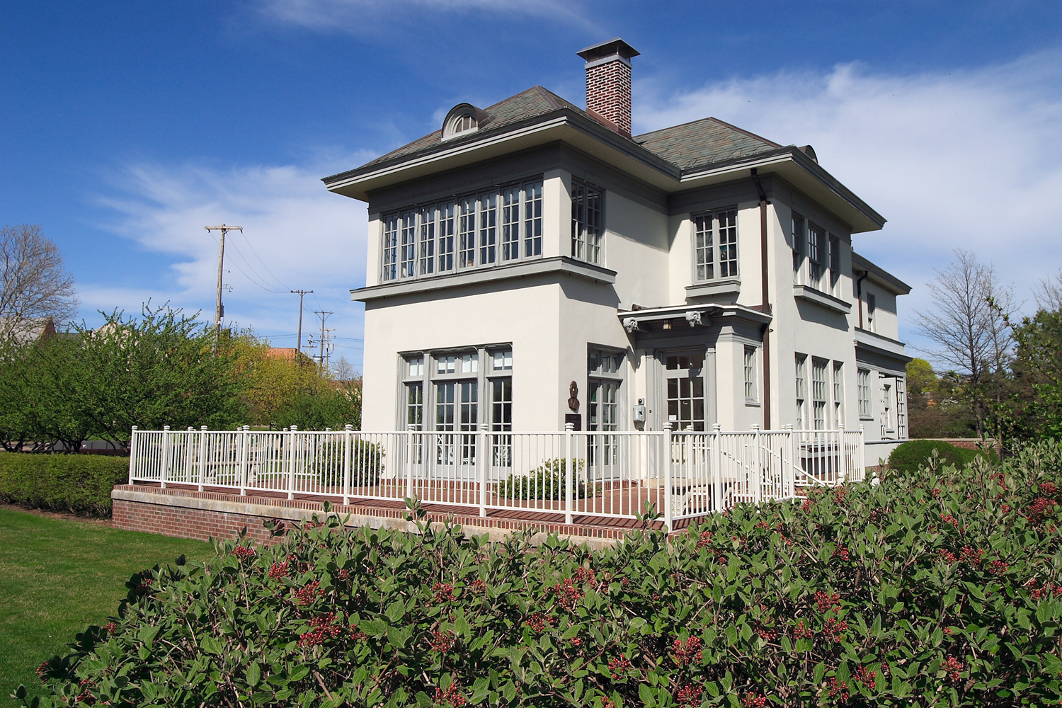 The Kellogg House is now used by the Kellogg Foundation to hosts residents visiting in town.